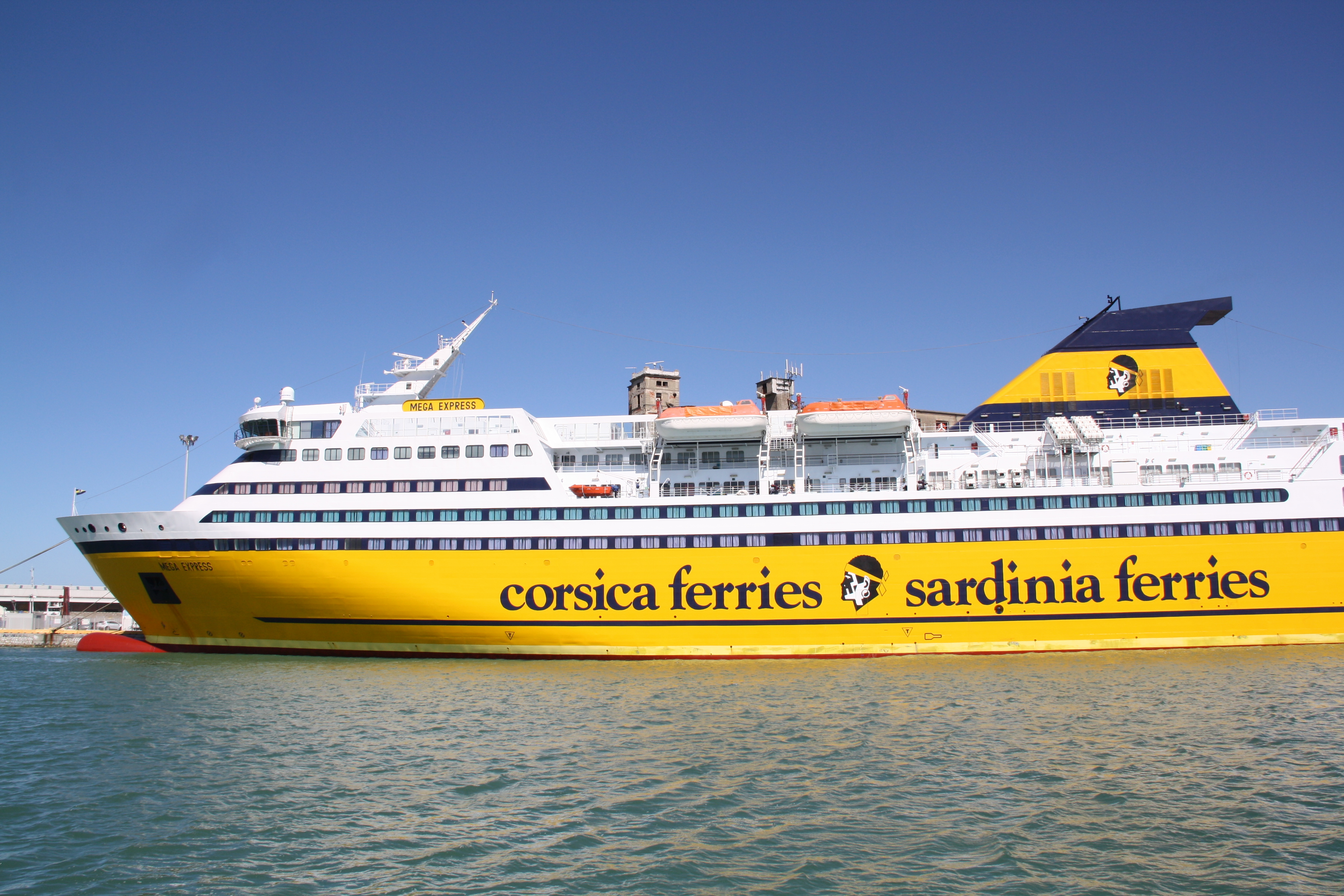 Italy Shipowner: Forship S.p.A., Vado Ligure Operator: Corsica Ferries - Sardinia Ferries IMO: 9203174 MMSI: 247013400 Call sign: IBPR Type: Ropax Builder: Cantiere navale fratelli Orlando Yard number:273 Year of construction: 2001 Delivery date: 2001 Port of registry: Genoa Gross tonnage: 26,024 t DWT: 3,500 t Length overall: 172.70 m Breadth: 24.82 m Draught: 6.55 m Main engine: 4 x Wärtsilä-NSD 12V46C diesel engines Engine power: 50,400 kW Speed: 28 knots Passengers: 1880